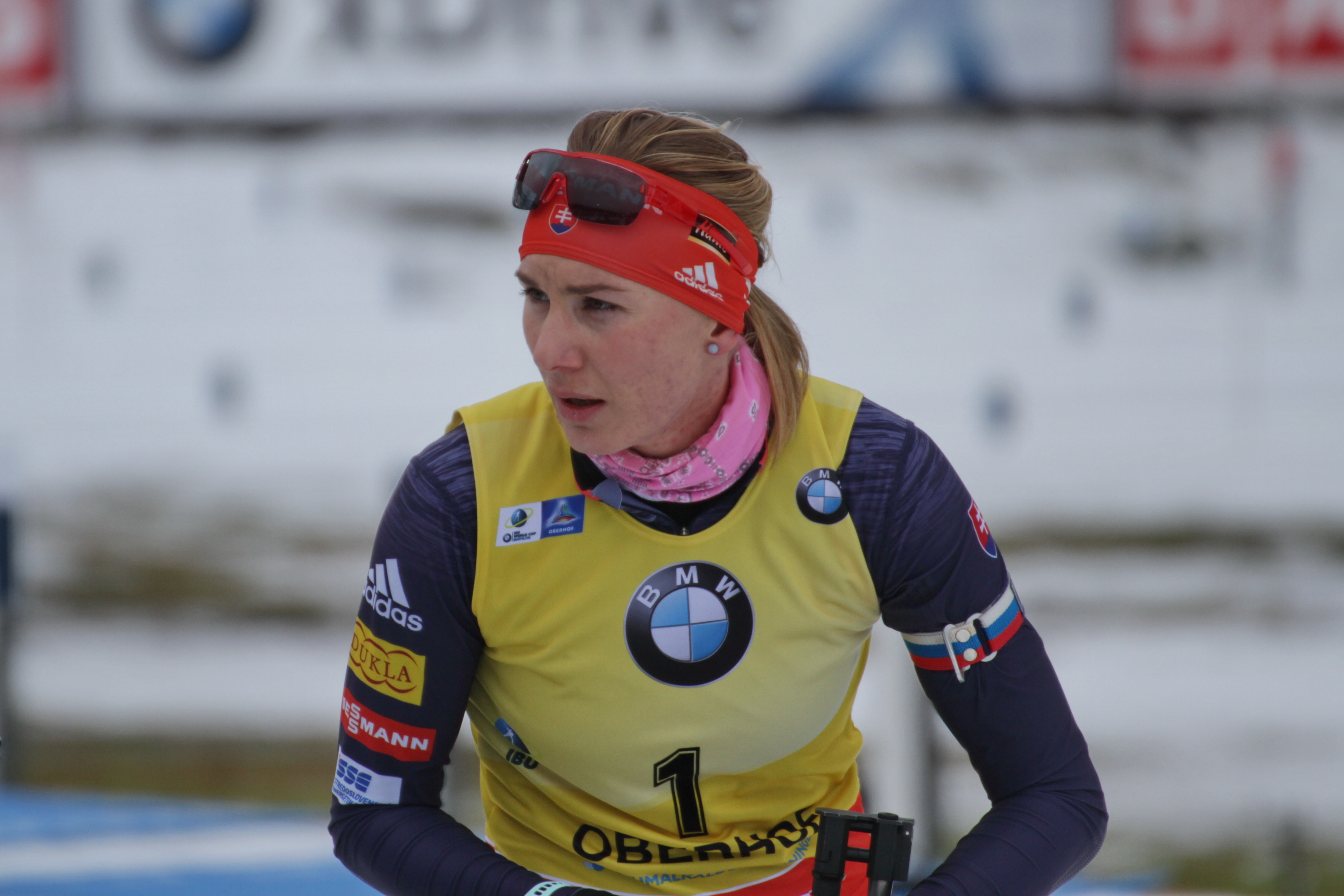 2018 Oberhof Biathlon World Cup - Pursuit Women